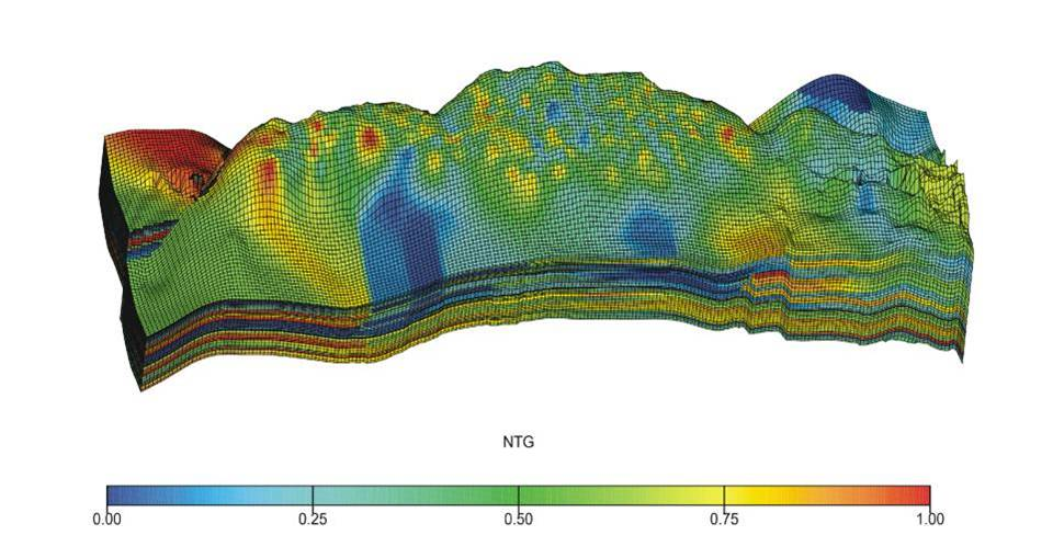 Геология